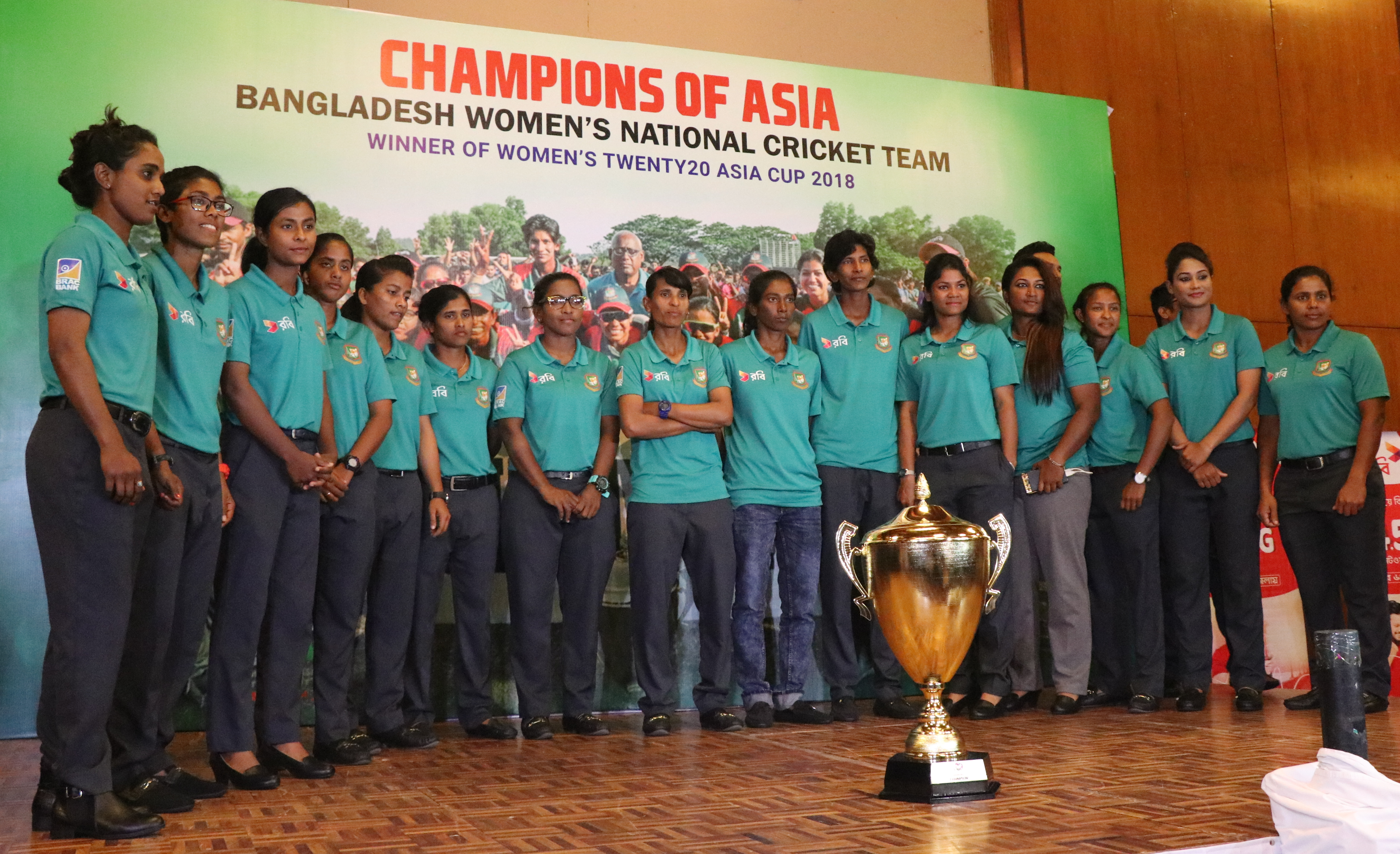 Asia Cup 2018 victory celebration of Bangladesh National Women Cricket team in Dhaka